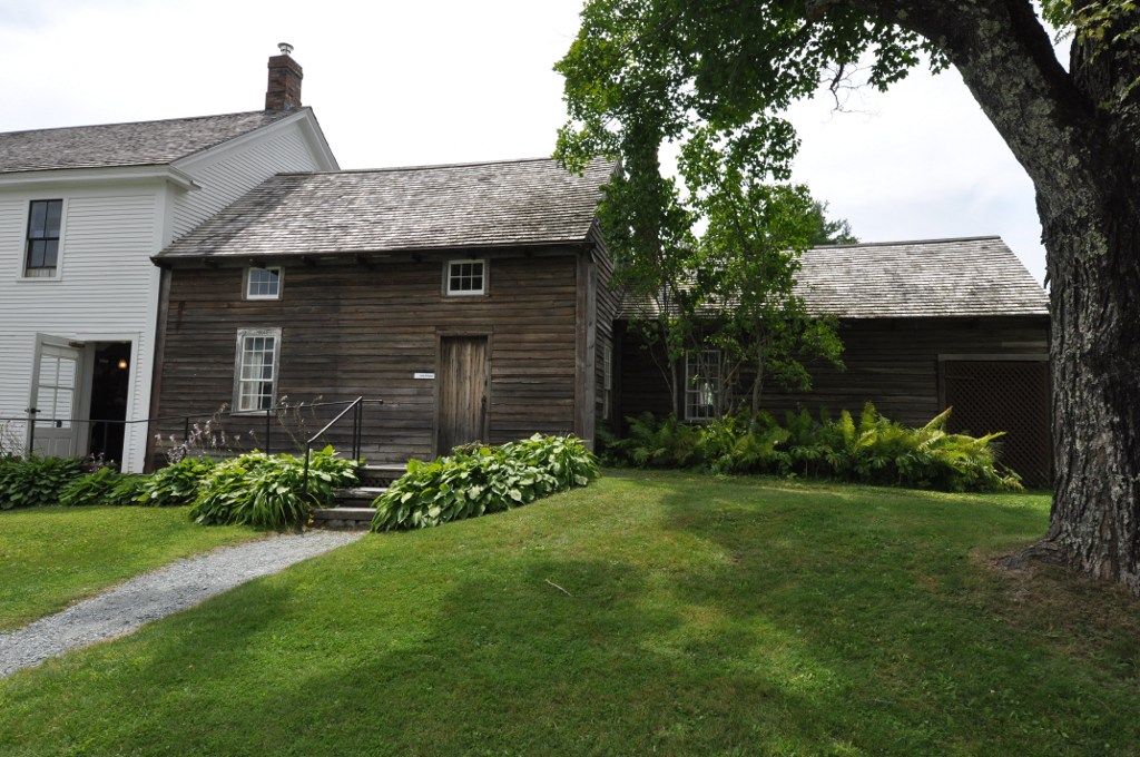 Calvin Coolidge Birthplace, Plymouth, Vermont.